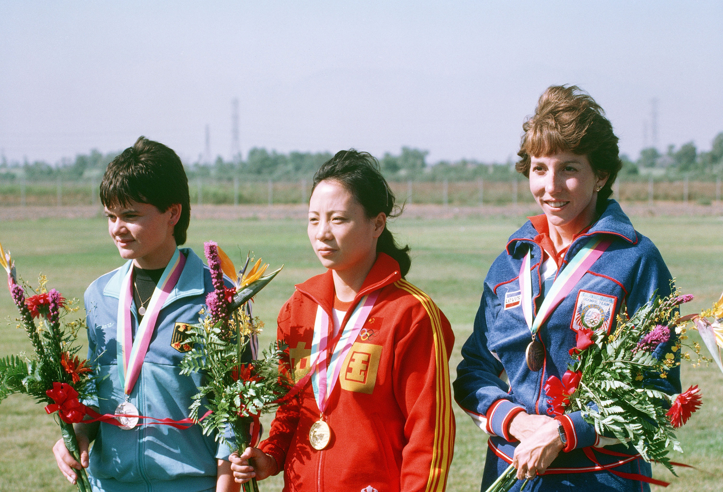 Army Reserve Captain Wanda R. Jewell, right, from Redstone Arsenal, Alabama, stands with gold medalist Wu Xiauxuan of Red China and silver medalist Ulrike Holmer of West Germany, after receiving a bronze medal in the small-bore rifle competition at the 1984 Summer Olympics.